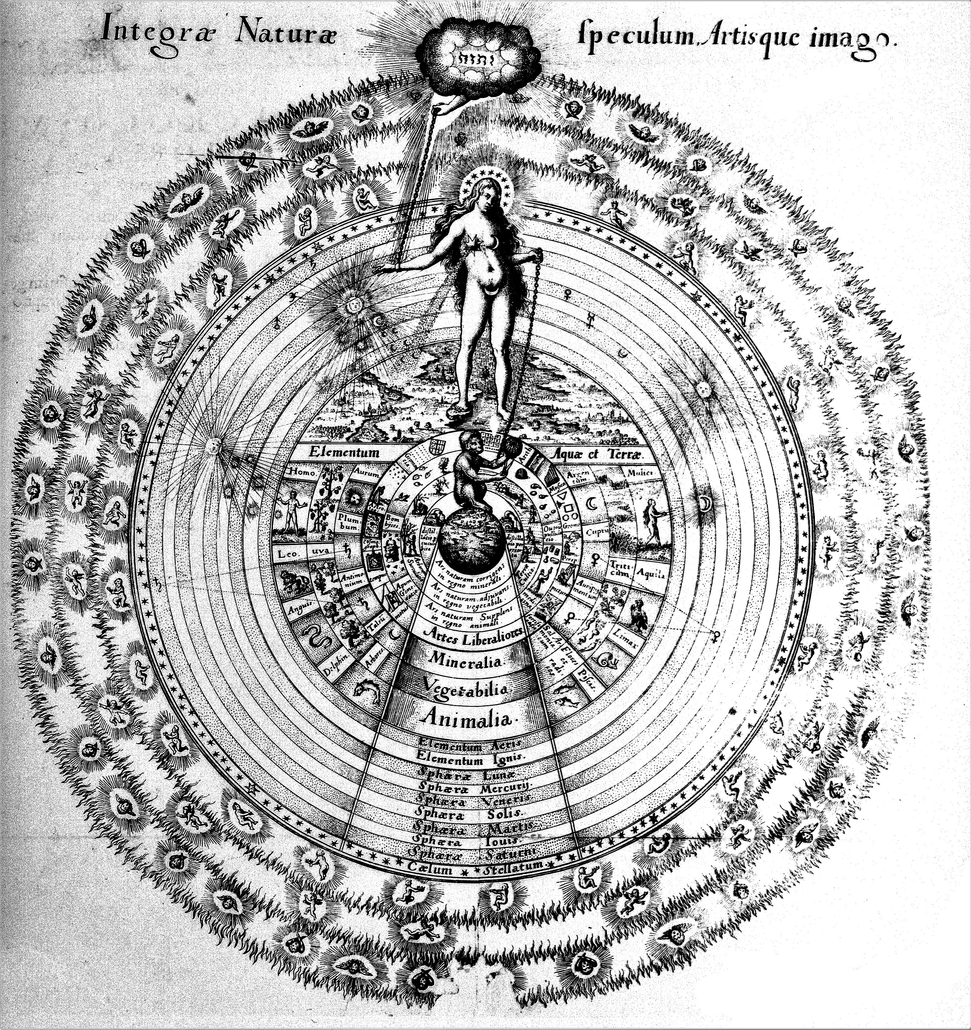 Diagram: integra naturae...imago Rare Books Keywords: alchemy, 17th century; occultism, 17th century; Fludd, Robert